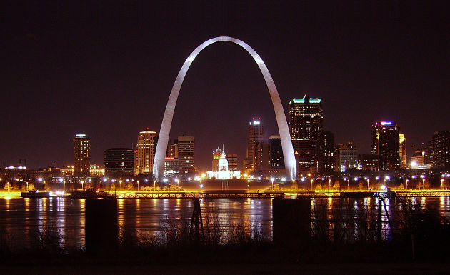 Skyline night view of St. Louis, Missouri.